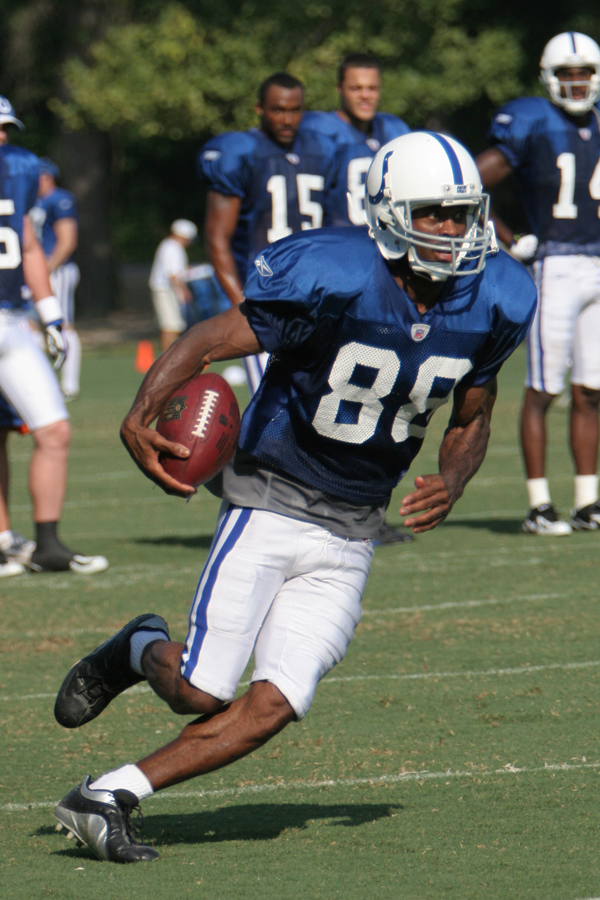 I took this picture of Marvin Harrison during the 2007 Colts training camp at Rose Hulman Institute of Technology in Terre Haute, IN